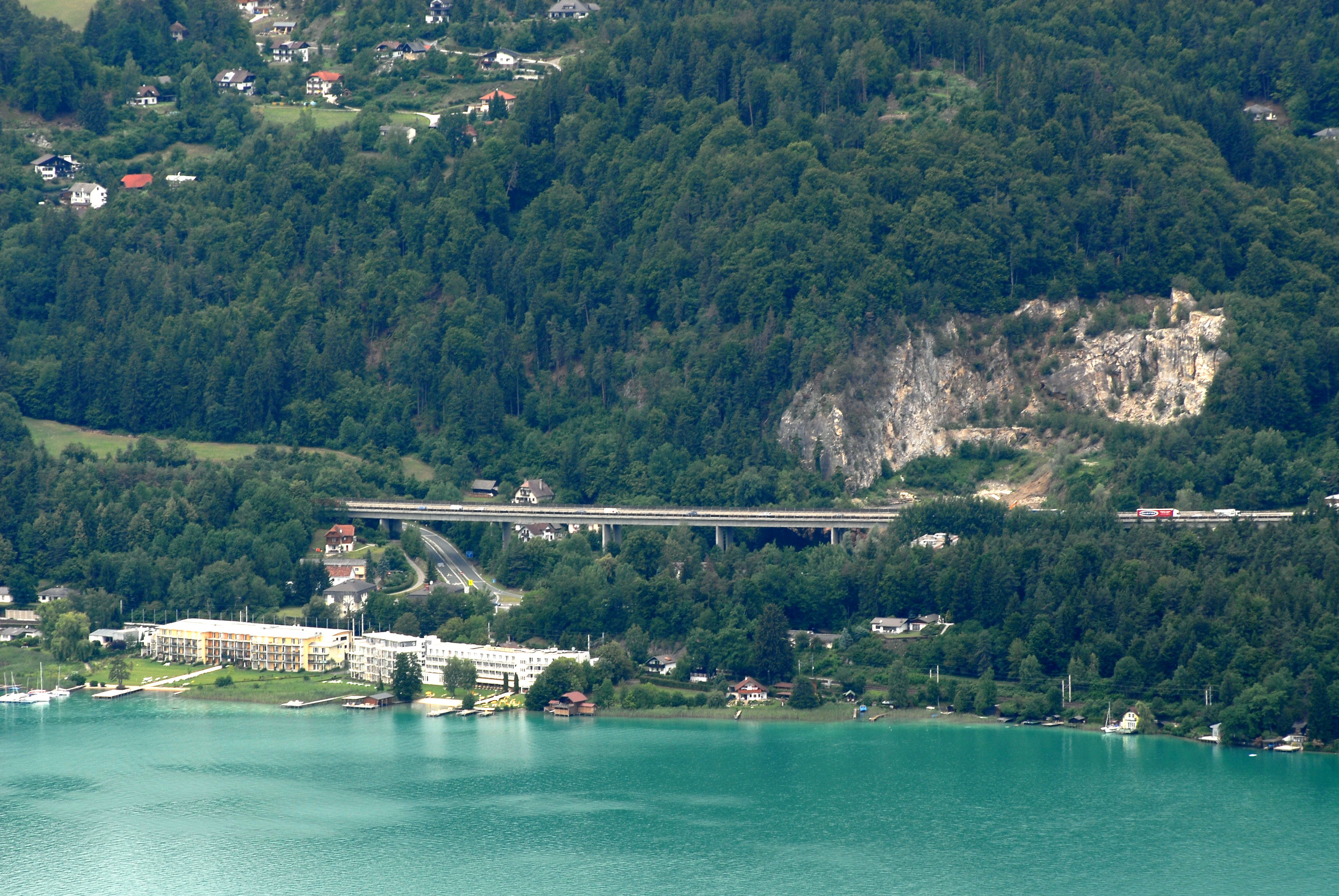 Shoreline on the Lake Woerth, A2 Suedautobahn and defunct quarry at Toeschling, municipality Techelsberg on the Lake Woerth, district Klagenfurt Land, Carinthia / Austria / EU